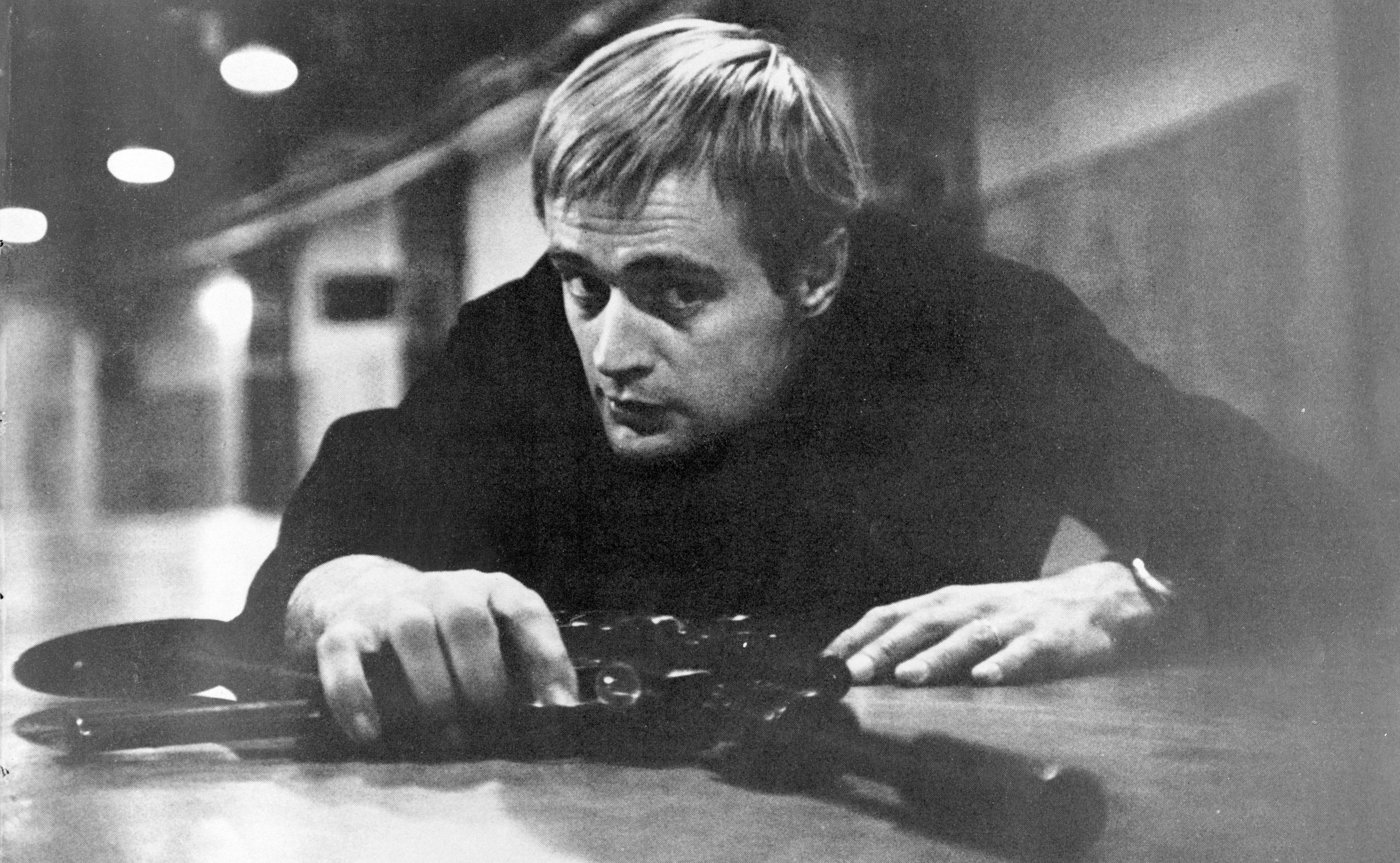 Actor David McCallum as Illya Kuryakin in the TV show The Man From U.N.C.L.E.. Illus. in: LOOK v. 29 no. 15 (1965 July 27), p. 79.